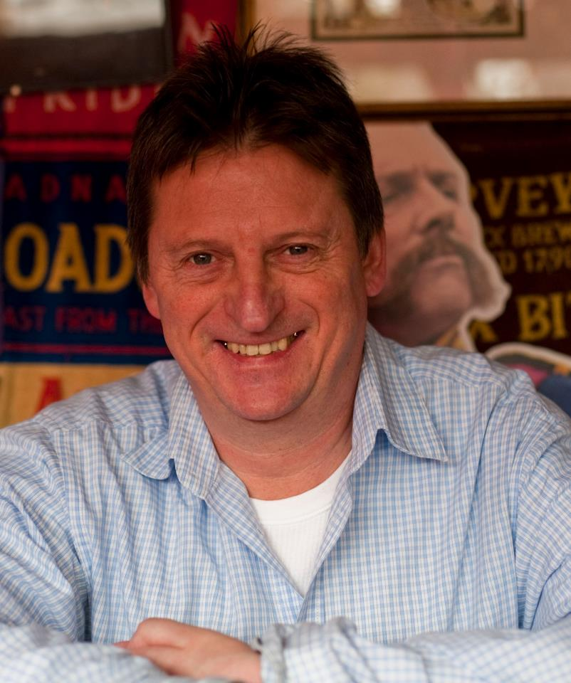 Martyn Hillier, inventor of the micropub and proprietor of The Butchers Arms, Herne, Kent, England